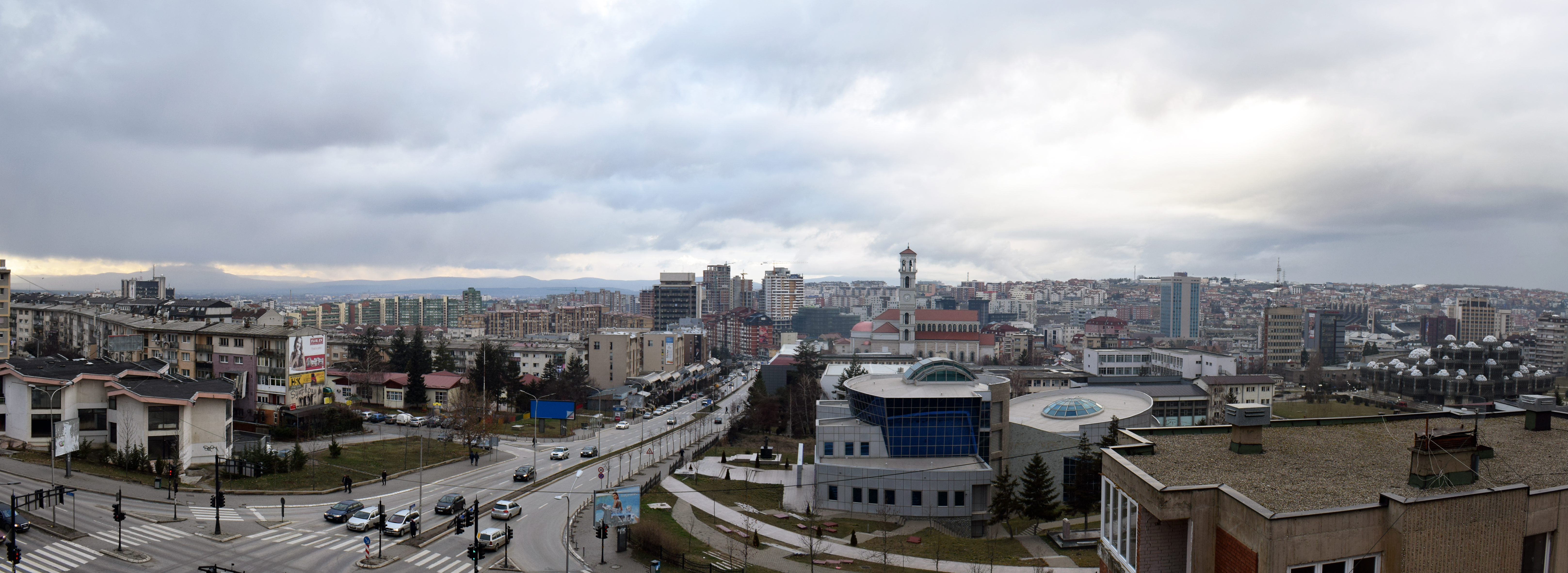 Panorama View of Prishtina